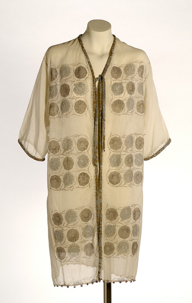 Short-sleeved blouse of muslin and white cotton with plant and geometric motifs.